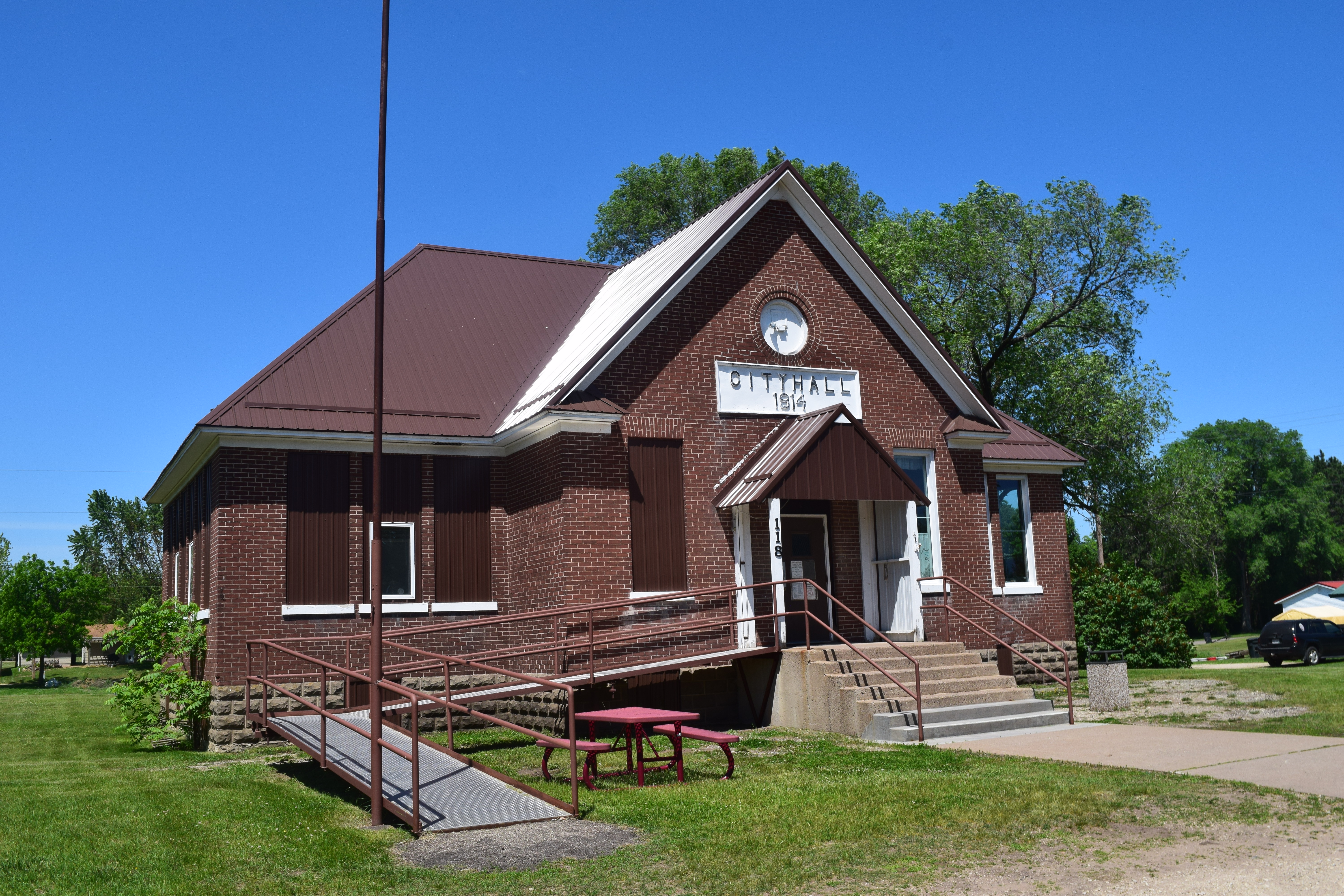 The 1914 City Hall building in Buffalo City, Wisconsin|.